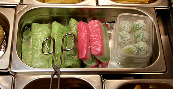 Kueh is the Indonesian and Malay term of Chinese origin for steamed sweet cakes, cookies and other pastries usually made with (glutinous) rice, on display in one of the many Indo (Dutch-Indonesian) Tokos in Amsterdam, The Netherlands, 2011. (Side note: Can also be baked and savoury and is also common in Malaysia and Singapore.)